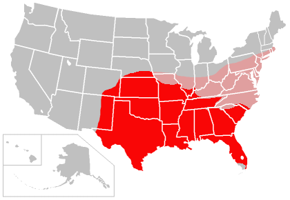 Map of the range of the Nine-banded Armadillo in the United States, created by user:Caliga10. This map is based in part on the following maps: Armadillo Range North American Mammals: Dasypus novemcinctus with supplemental information folded into it related to the appearance of the Nine-banded Armadillo in southern Illinois, obtained from the Illinois Natural History Survey, and supplemental information related to the appearance of the Nine-banded Armadillo in western Kentucky, from [1] (anecdotal to be sure, but the Kentucky Department of Fish and Wildlife seems to agree). The areas colored red indicate present range of the Nine-banded Armadillo in the United States, as of approximately 2006, and the areas colored pink are areas in which the species should eventually be able to establish itself based on climate and soil conditions, according to the first source cited above. That source also indicated large areas of the west coast of the United States as being suitable for armadillo expansion, but that would depend on human intervention as the armadillo is not likely to be able to establish itself in points eastward (i.e. the Rocky Mountains) which lie between its current range and the Pacific coast.